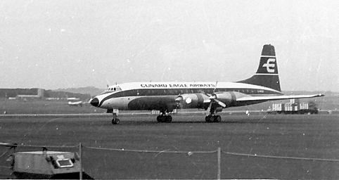 Prestwick Airport 1961, before there was even a terminal.